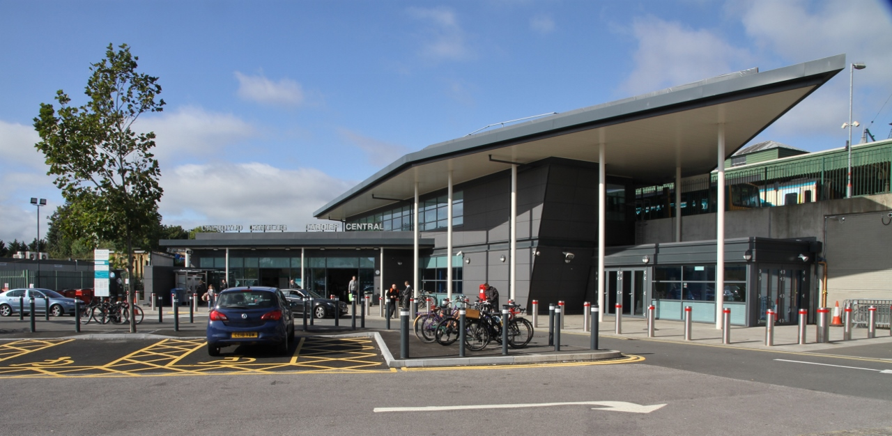 New south booking hall of Cardiff Central railway station, seen from east-southeast